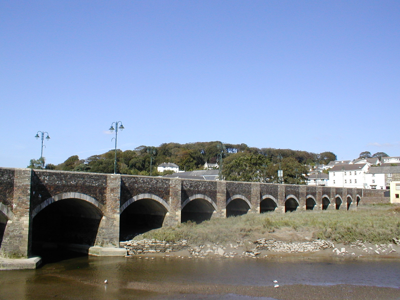 The Old Bridge over the River Camel, Wadebridge, Cornwall